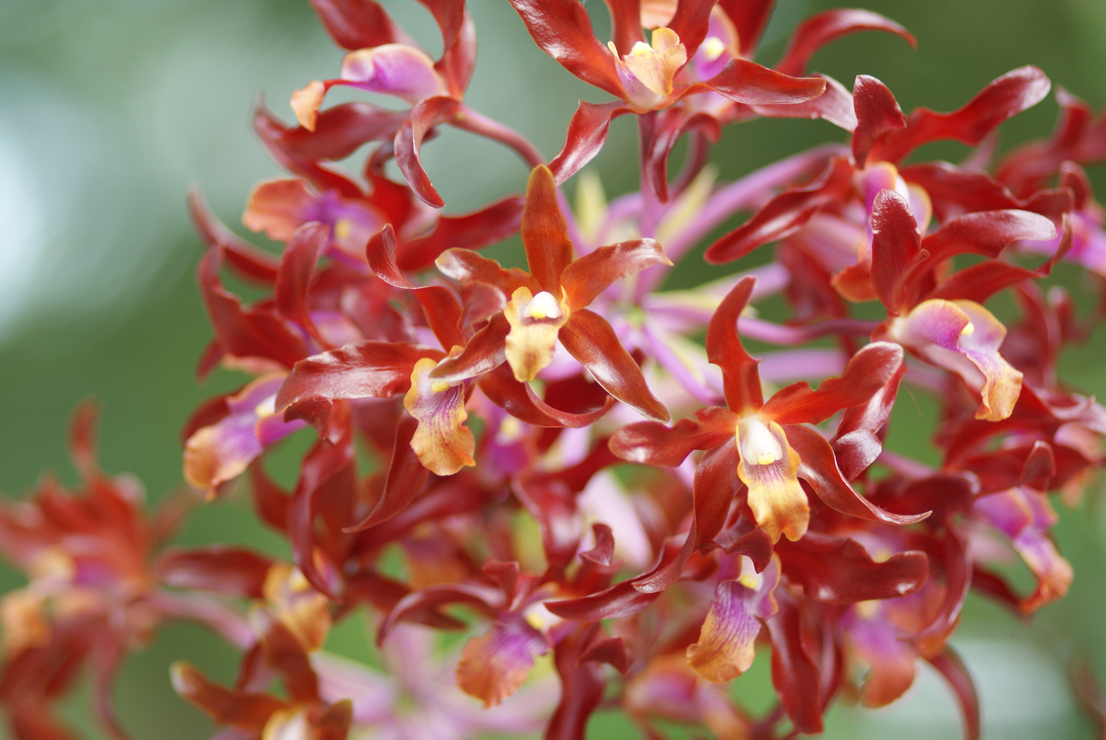 Schombocattleya Dulatiaca Or properly Guarlia?